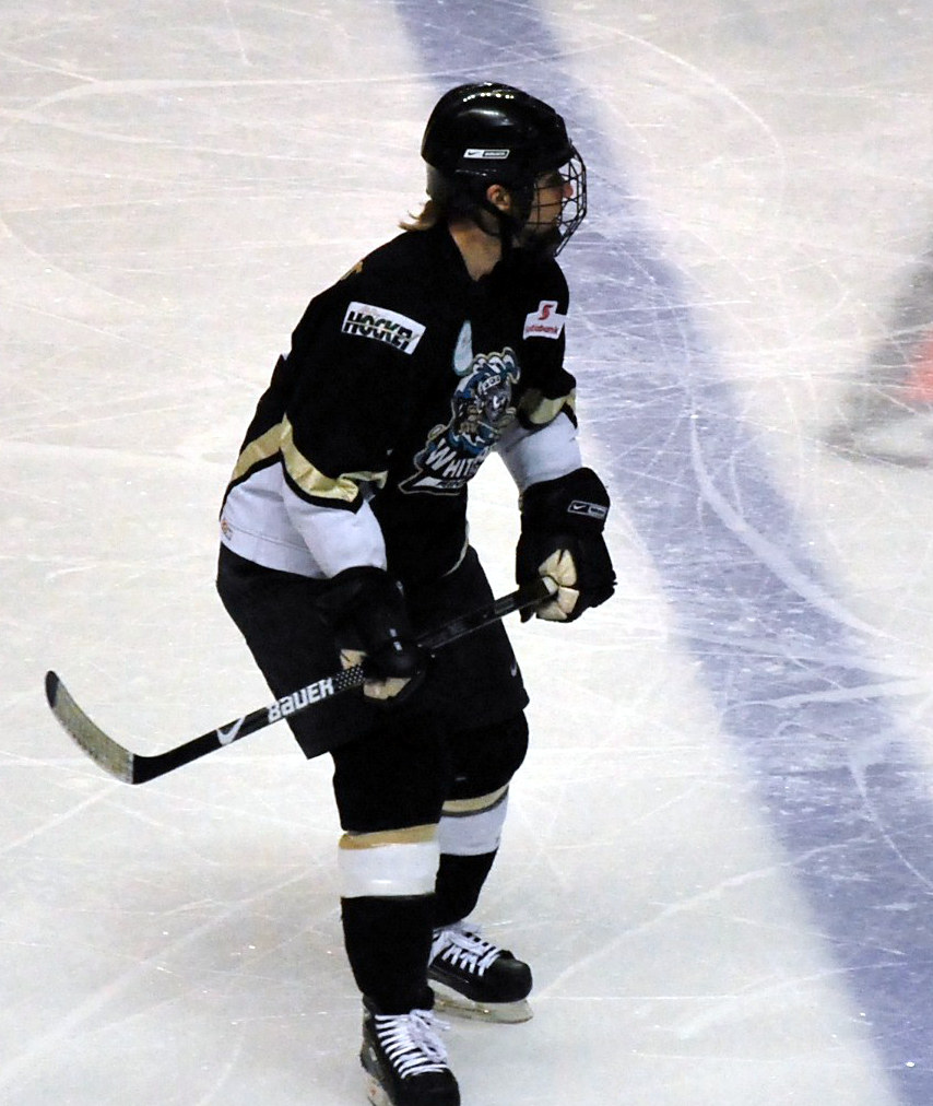 Calgary Oval X-Treme vs Minnesota Whitecaps, WWHL, 2009-03-20